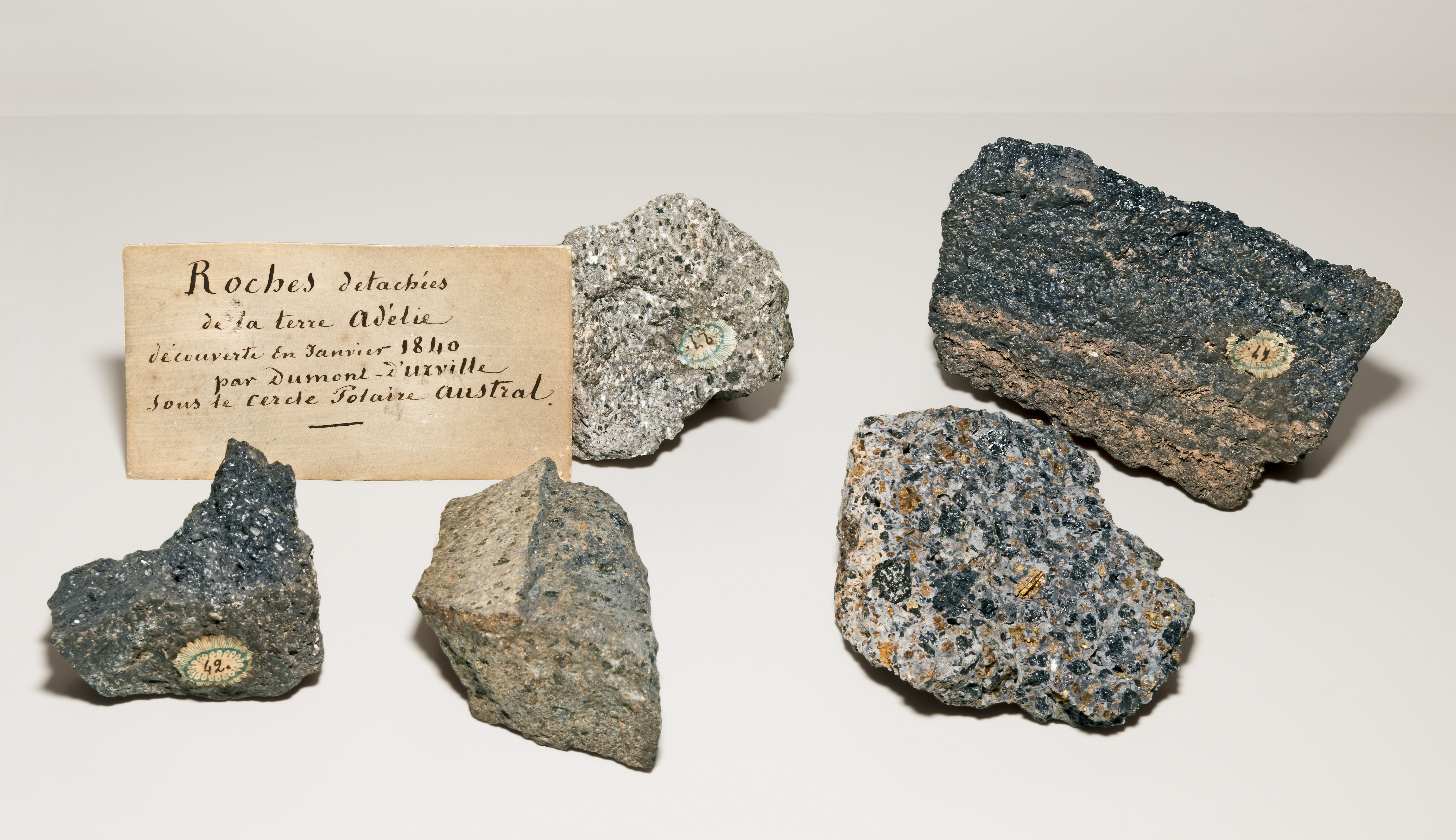 Specimens of rocks reported by Dumont D'Urville Expedition Population : Adélie Land Collector and collection: Gaston de Roquemaurel - The second travel of Dumont D'Urville (1837 - 1840) Date of collection: January 1840